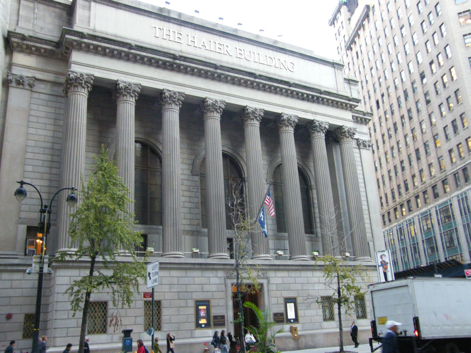 Former Greenwich Bank Building, now Haier Building.